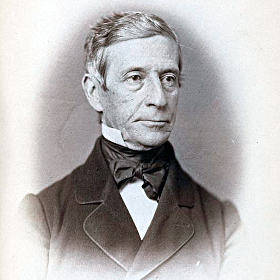 Henry Chapman, US Representative from Pennsylvania